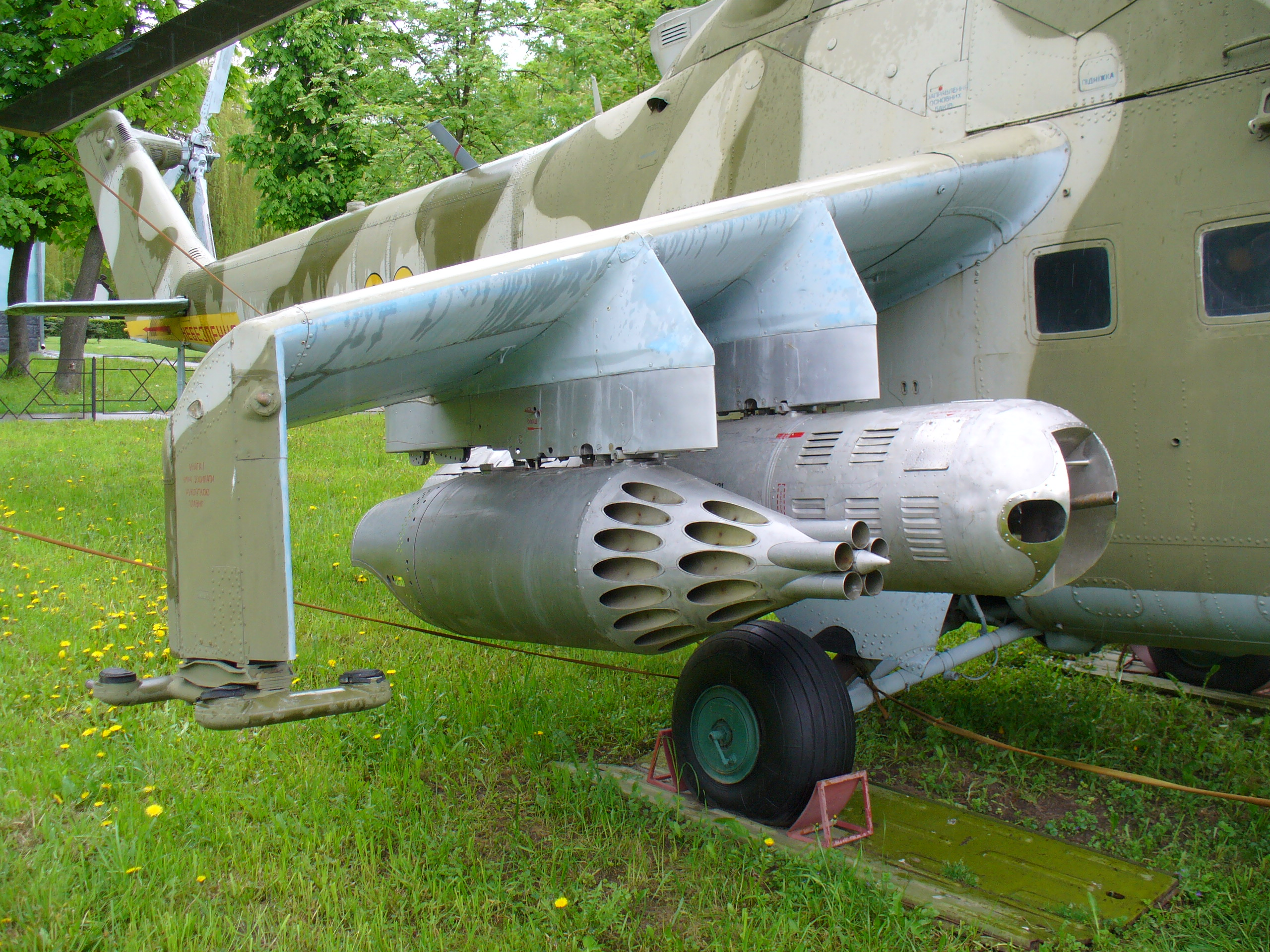 The Mil Mi-24V (NATO reporting name "Hind") is a large helicopter gunship and low-capacity troop transport. Ukrainian Air Force Museum in Vinnitsa. This exhibit is the participant of the Soviet war in Afghanistan and has received minor damages.